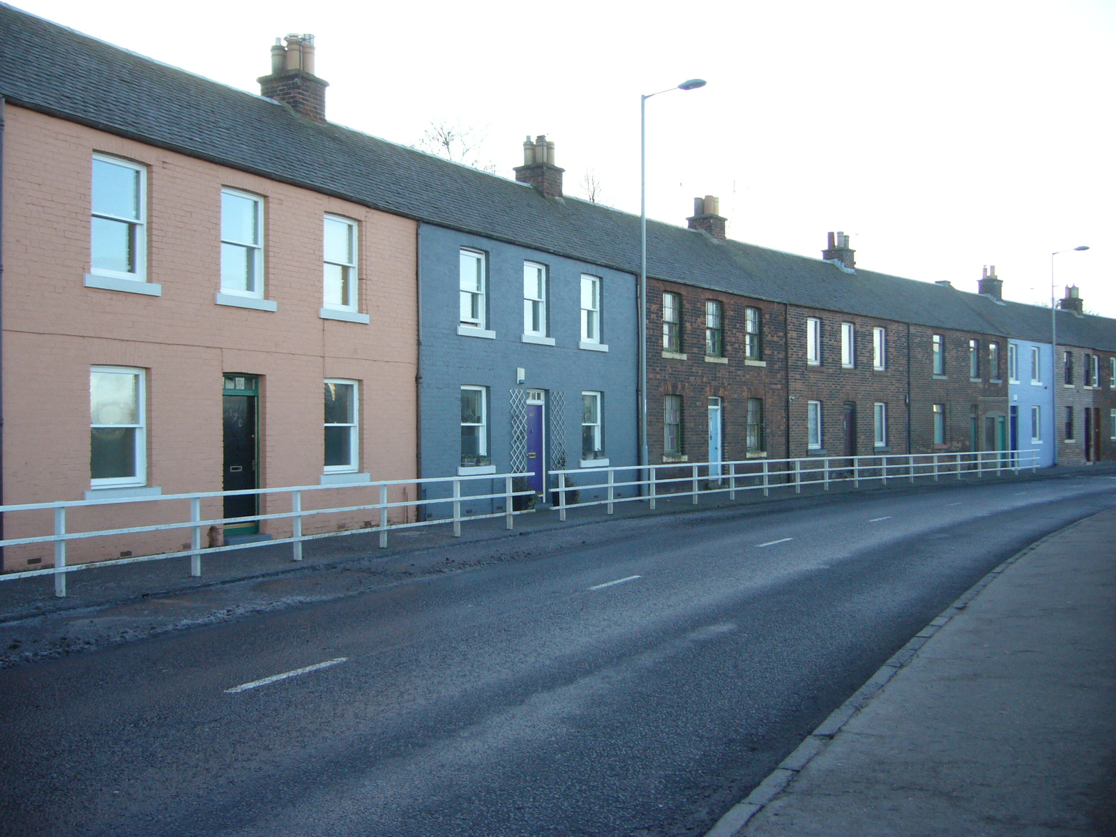 Houses on the road between Newhaven and Granton Harbour. The harbour and houses were built by the Duke of Buccleuch between 1835 and 1844. Coal was brought to Granton from Midlothian by rail and loaded onto ships for export. A railway embankment which stood opposite these houses, blocking their view of the Forth, was removed in the early 1980s.